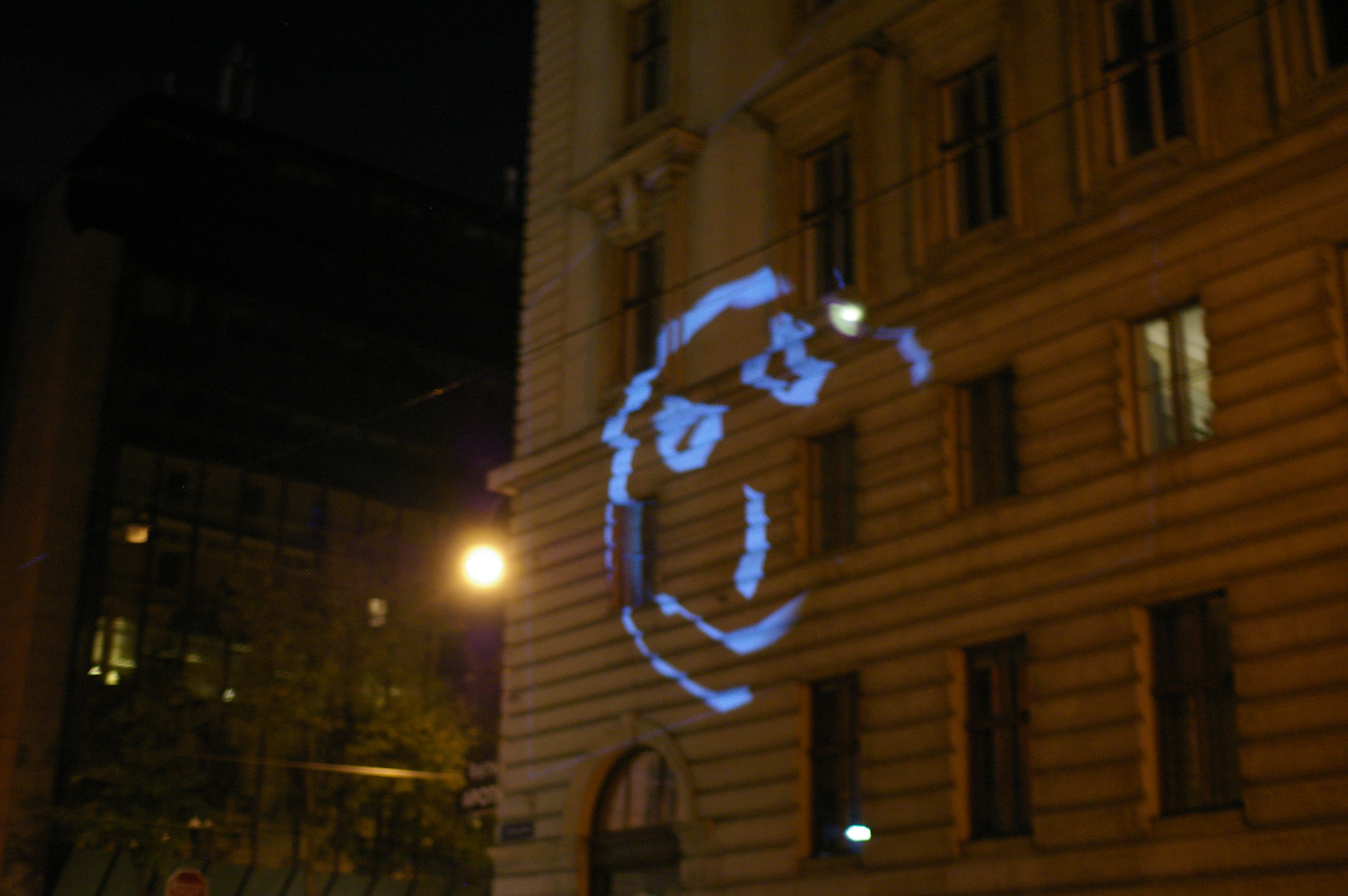 Laser Graffiti in Vienna, August 31, 2007.